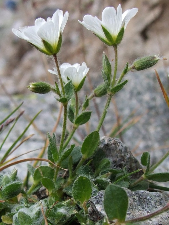 Cerastium uniflorum. Habitat:High Tatra Mountains